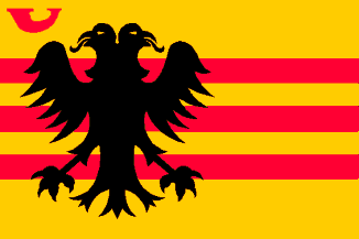 Flag of Hunsel, Netherlands